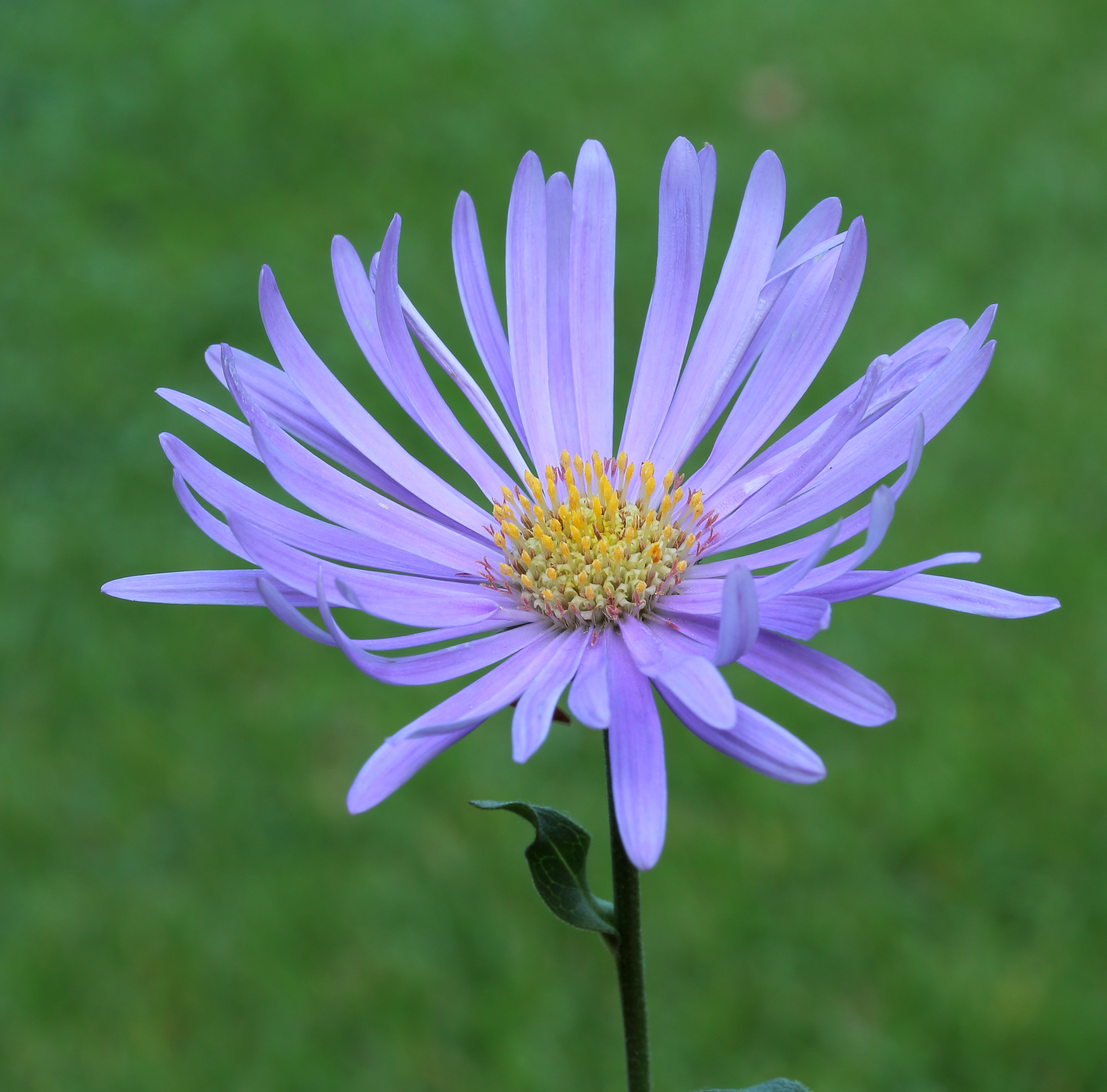 Aster thomsonii. Location:Garden Sanctuary Jonker Valley.